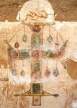 Wall painting of a cross (crux gemmata), late 6th century, Kellia, Egypt. — Coptic Egypt: The Christians of the Nile, Christian Cannuyer, collection ‘New Horizons’, p. 137. Thames & Hudson, 1 June 2001.